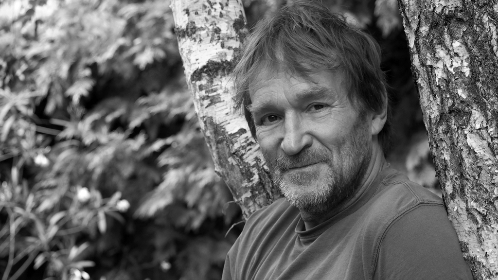 György Cserhalmi is awarded by one of the greatest Hungarian Prize, Hungarian actor.